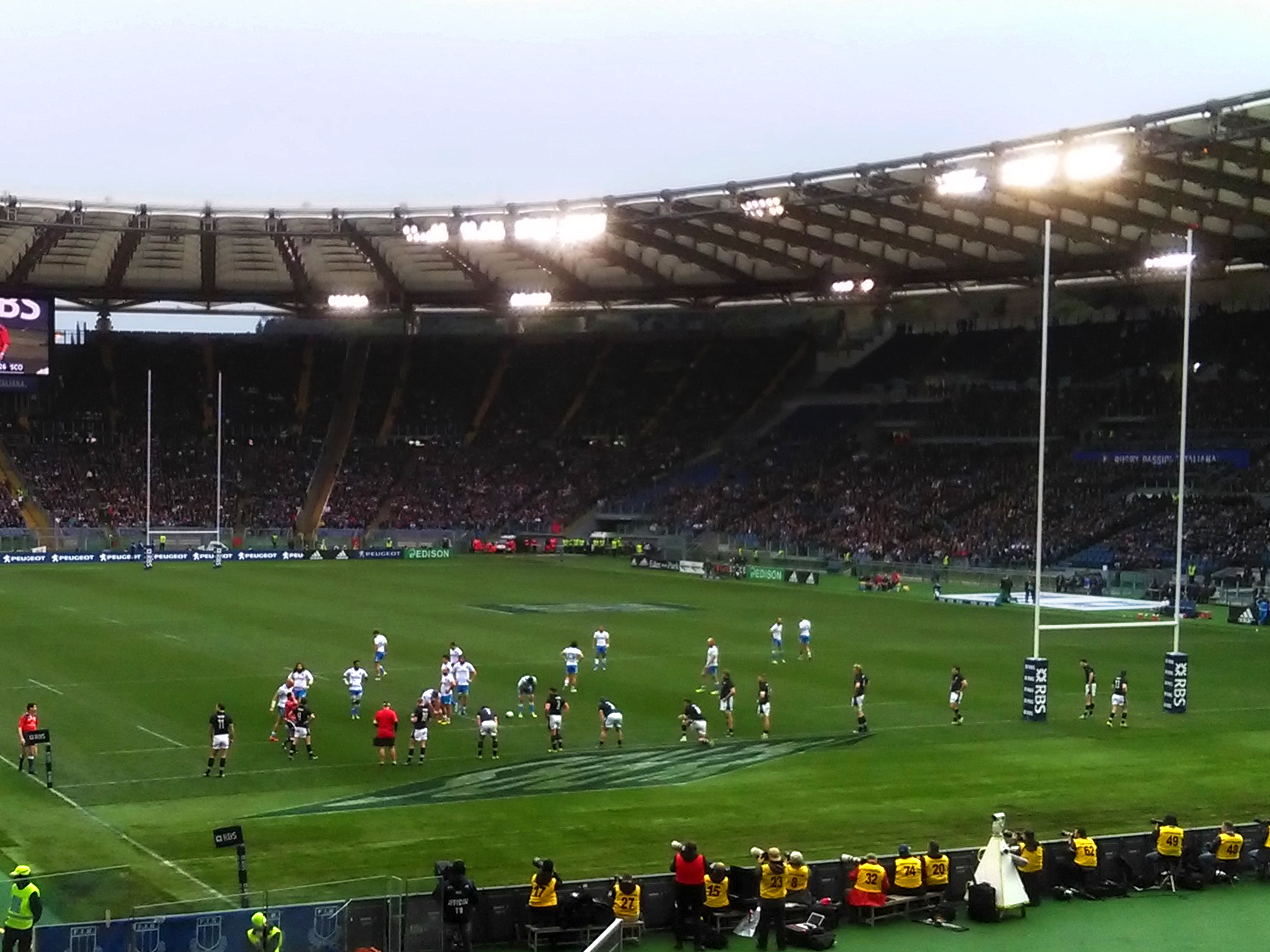 Six Nations match at Stadio Olimpico di Roma, Italia 20-36 Scotland (February 27, 2016)